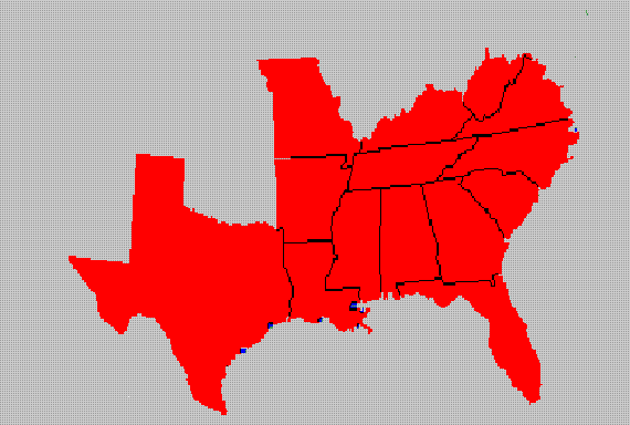 Electoral vote of the Southern United States in the 2004 presidential election.